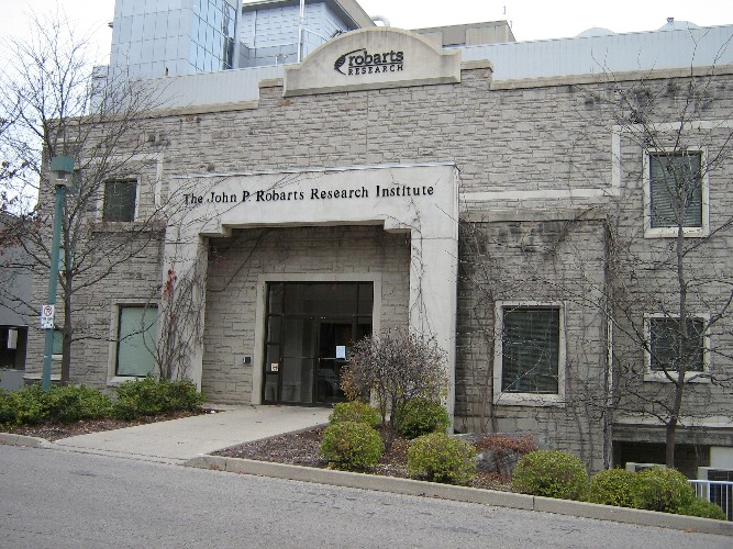 Main Entrance of Robarts Research Institute, London, Ontario, Canada.